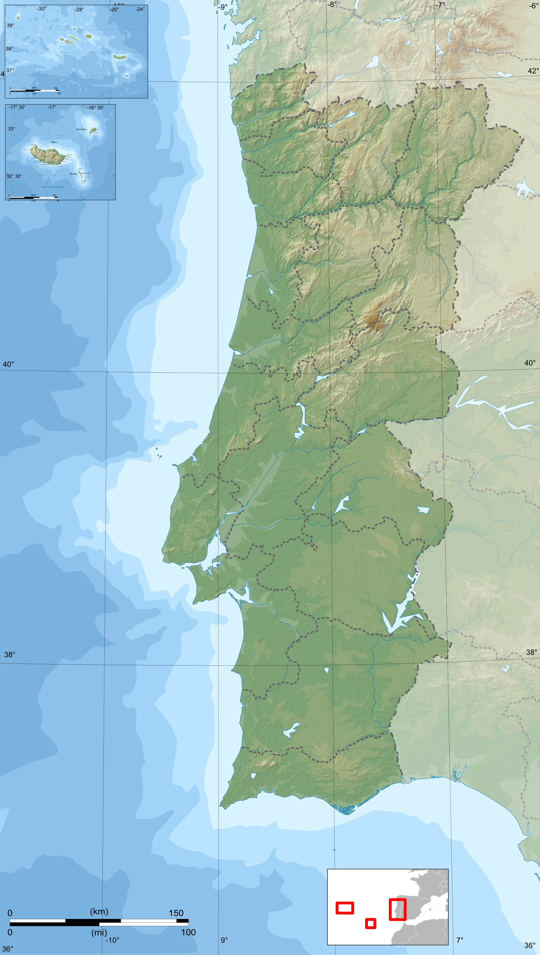 Topographic and administrative map in French of Portugal